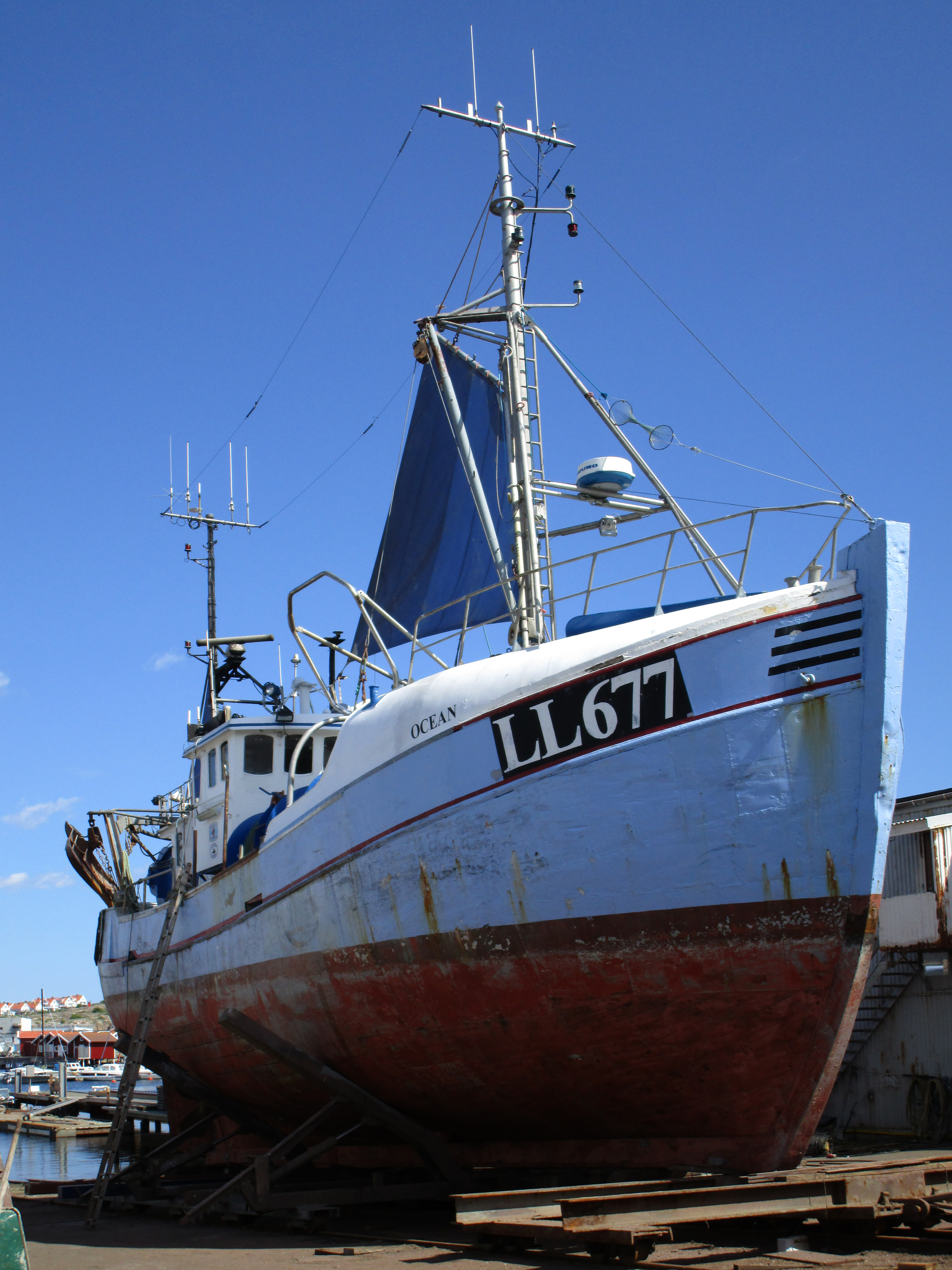 Fishing boat, LL677 Ocean, in Smögen wharf, Sweden.